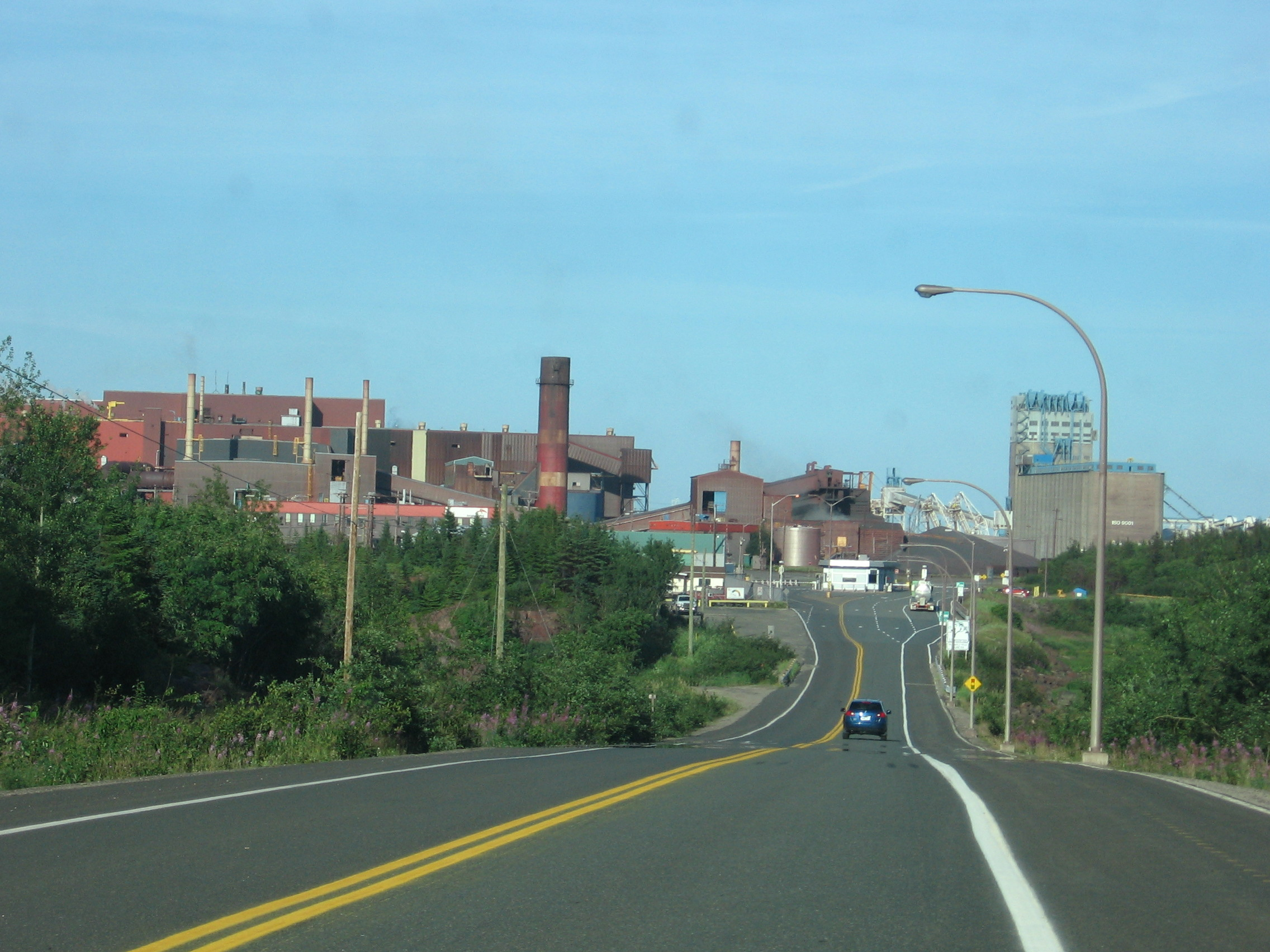 Port Cartier Industry